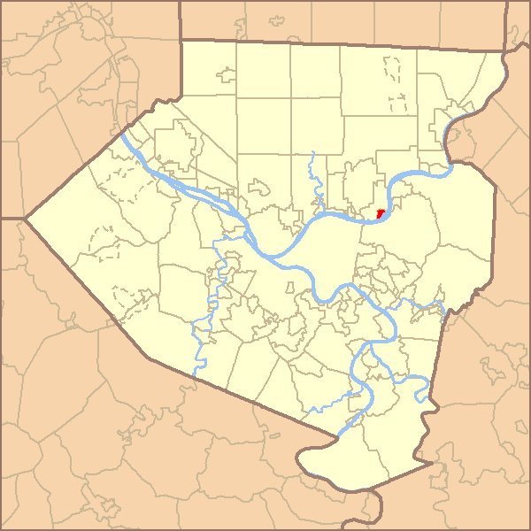 Map highlighting the municipality within Allegheny County, Pennsylvania.